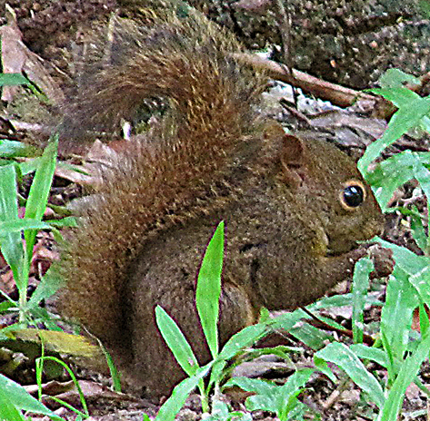 Brazilian squirrel (Sciurus aestuans) on the ground next to his tree. Spotted in Brazil.